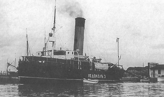 Icebreaker No.3 (later Dzhigit).